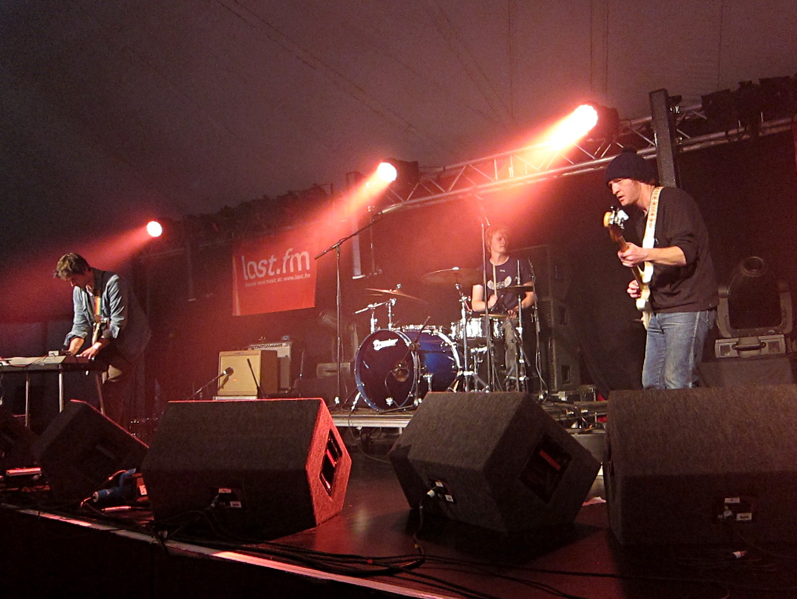 Y Niwl on the 'Into the Wild' stage, Summer Sundae festival, Leicester, 17 August 2012